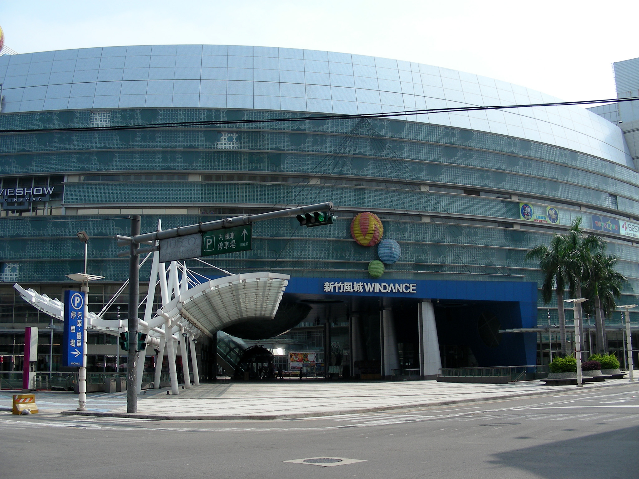 The "WINDANCE" shopping mall in Hsinchu City, Taiwan